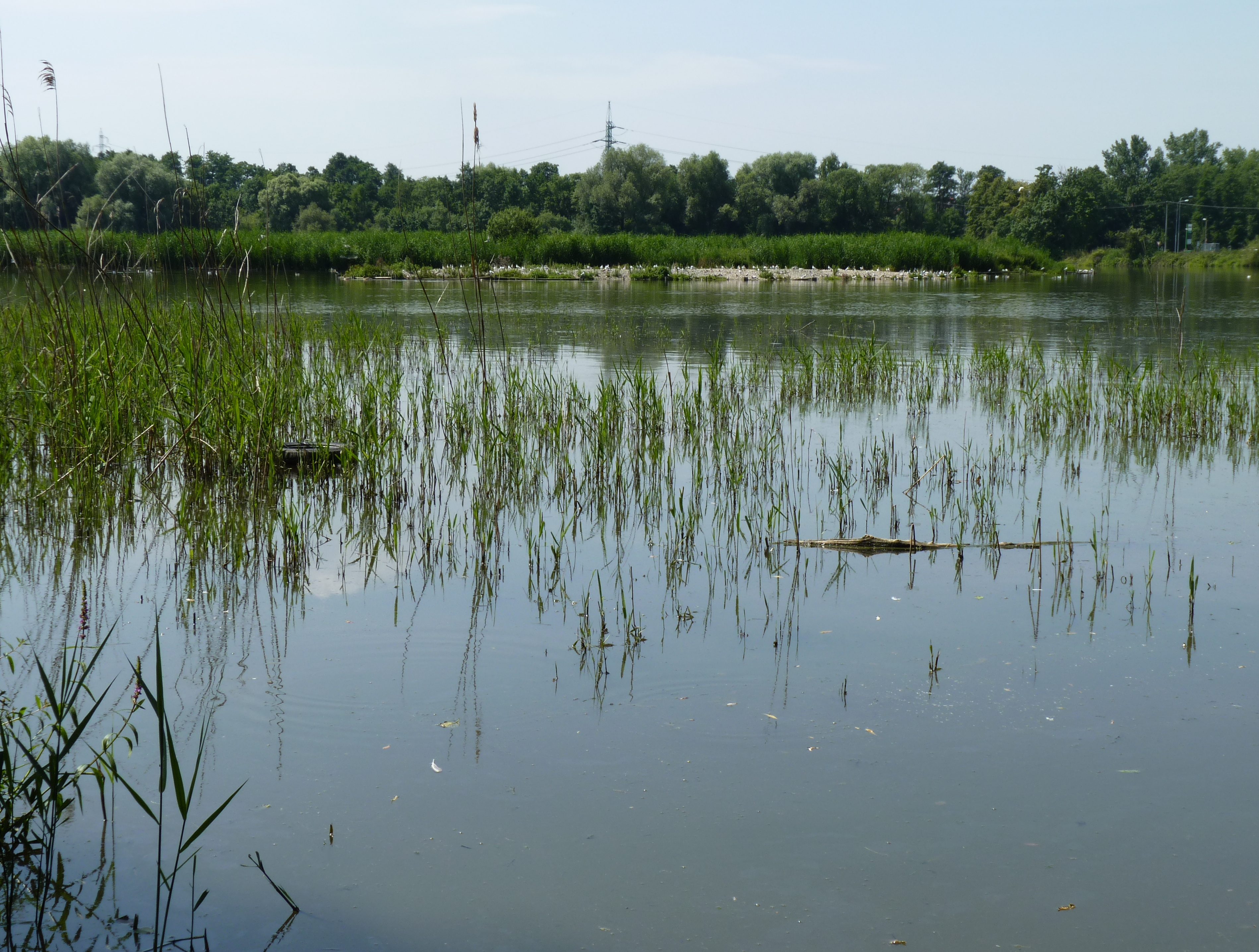 Rychvald. Karviná District, Moravian-Silesian Region, Czech Republic